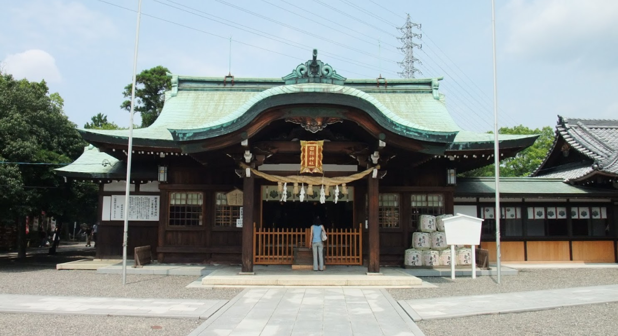 Tagata Jinja where the procession of Honensai